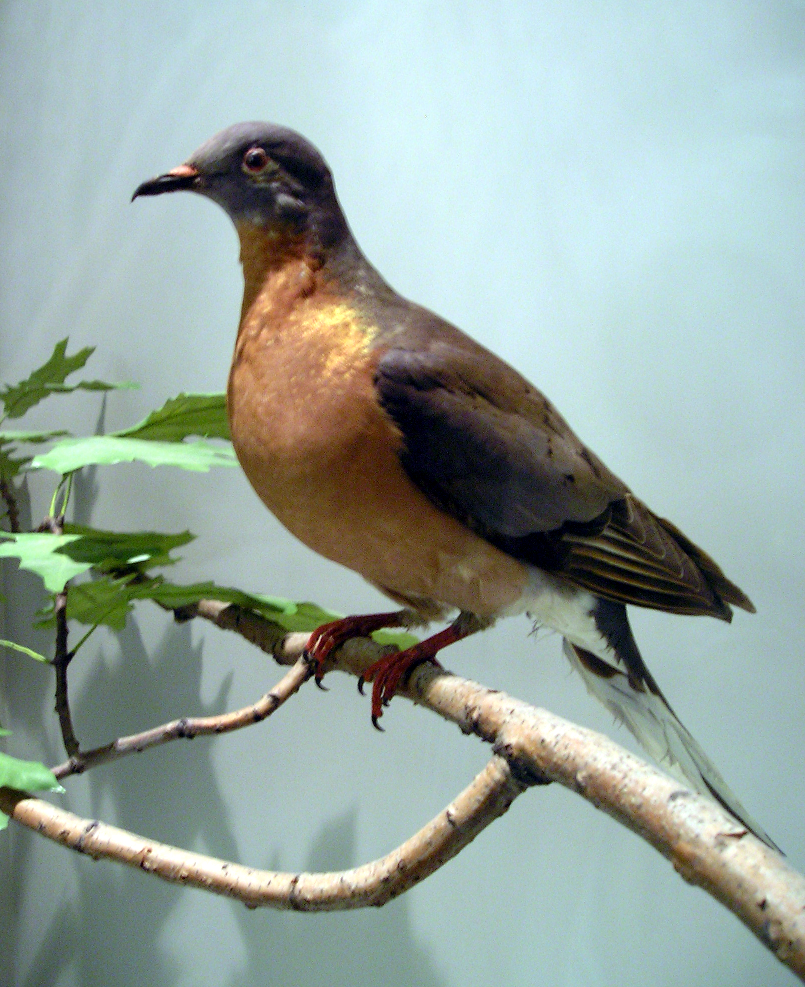 Stuffed passenger pigeon Ectopistes migratorius, Bird Gallery, Royal Ontario Museum, Toronto.